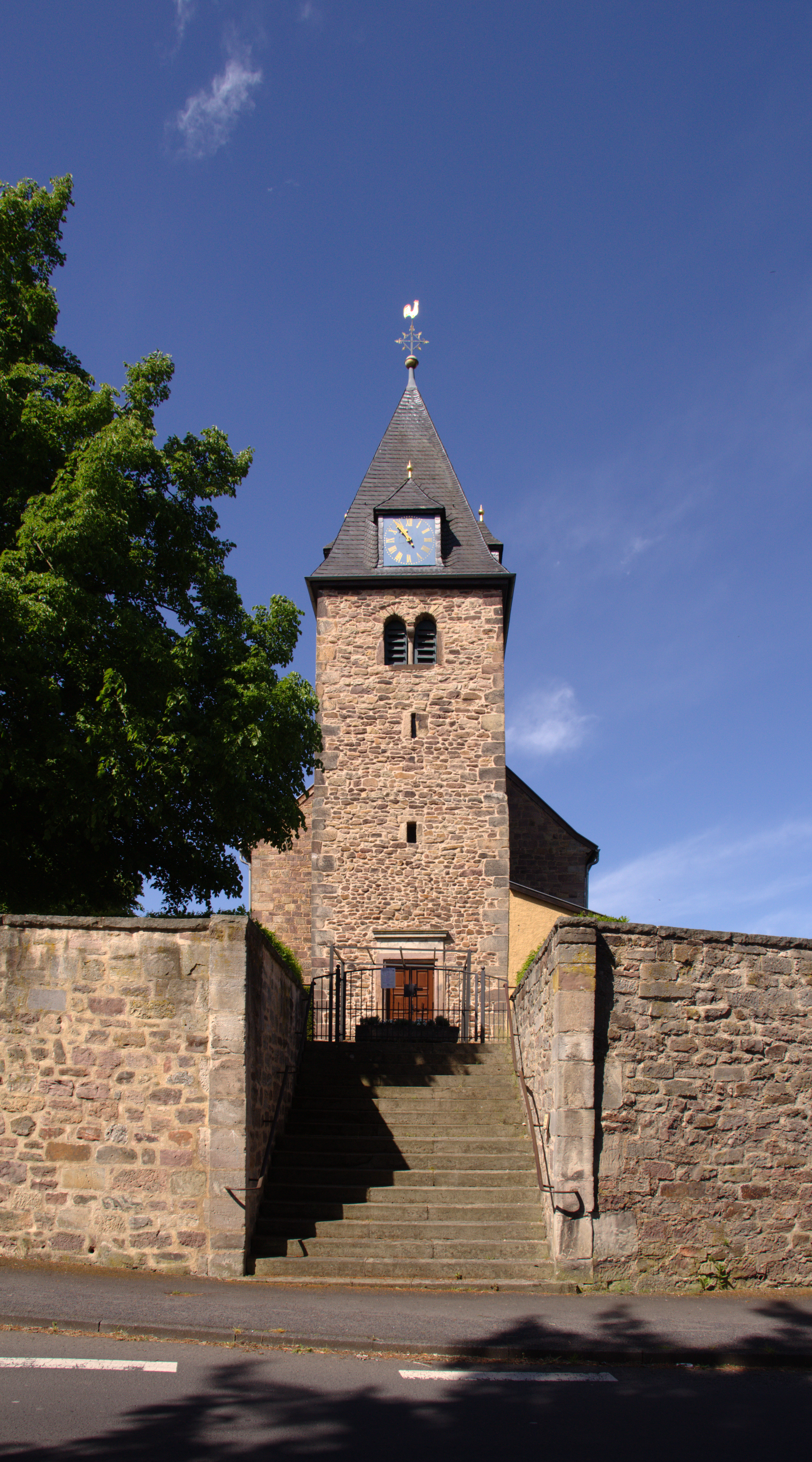 Old Church in Marberzell Fulda, Hesse, Germany